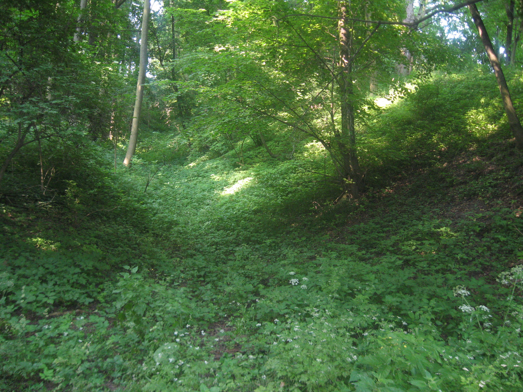 Šebín Castle (Czech Republic) - Defence Moat